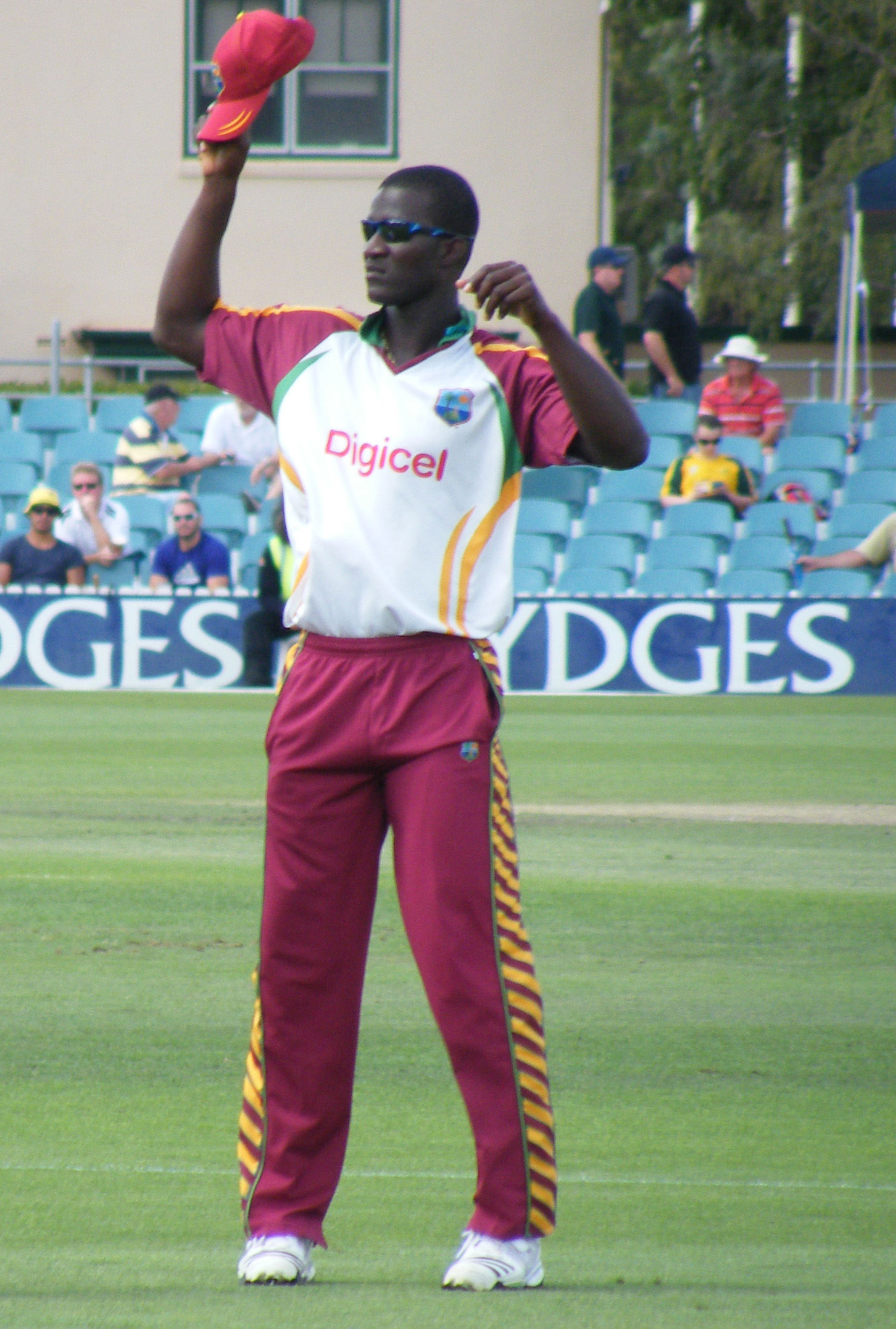 Darren Sammy at the Prime Ministers 11 Cricket match in Canberra 2010.